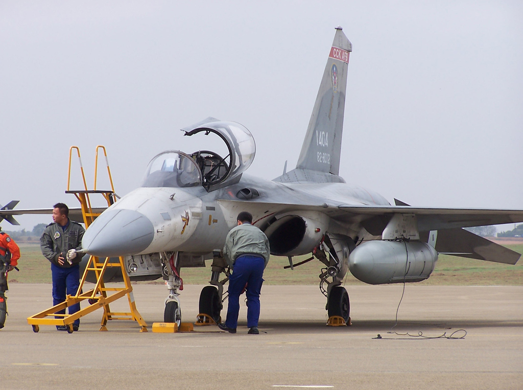 IDF F-CK-1A Preproduction